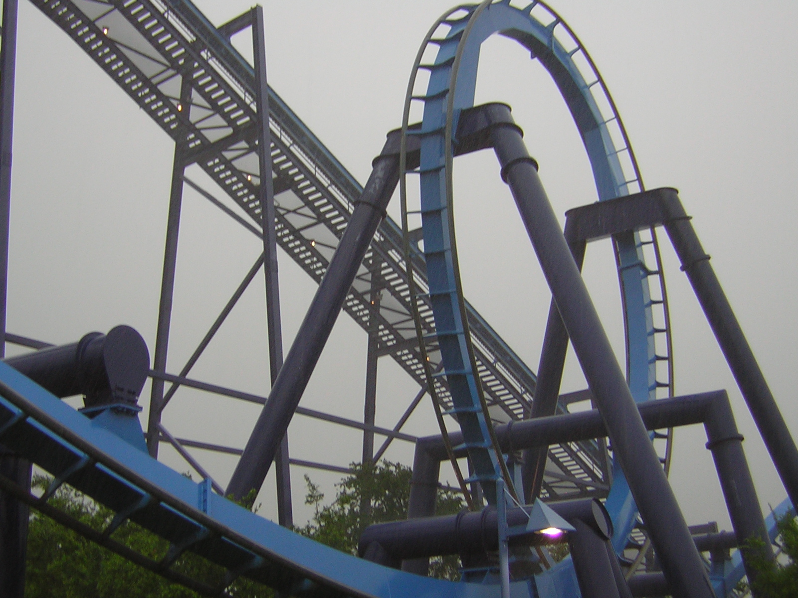 The Great White at SeaWorld San Antonio.